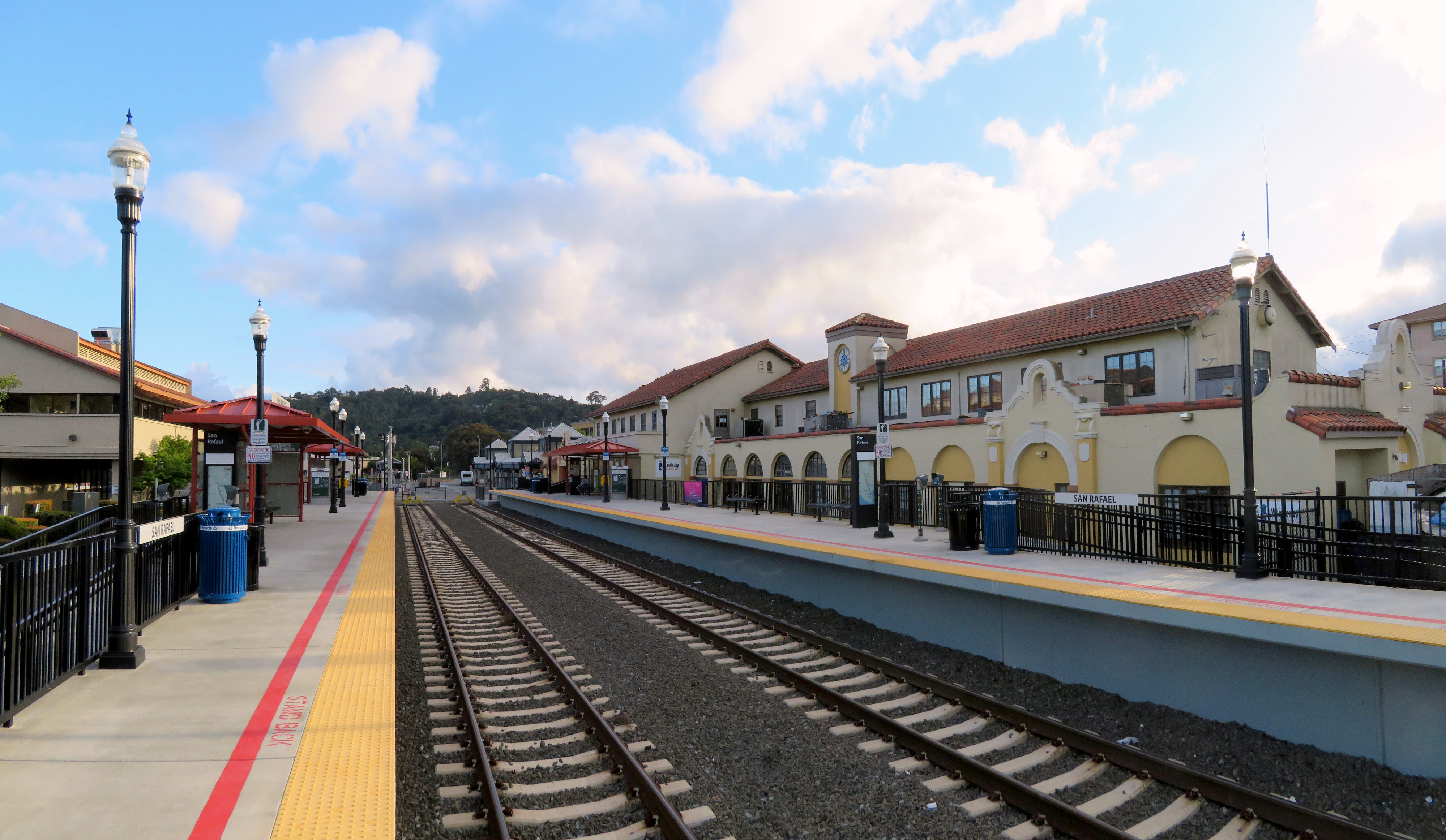 Platforms and the former NWP station building at the San Rafael Transit Center in April 2018